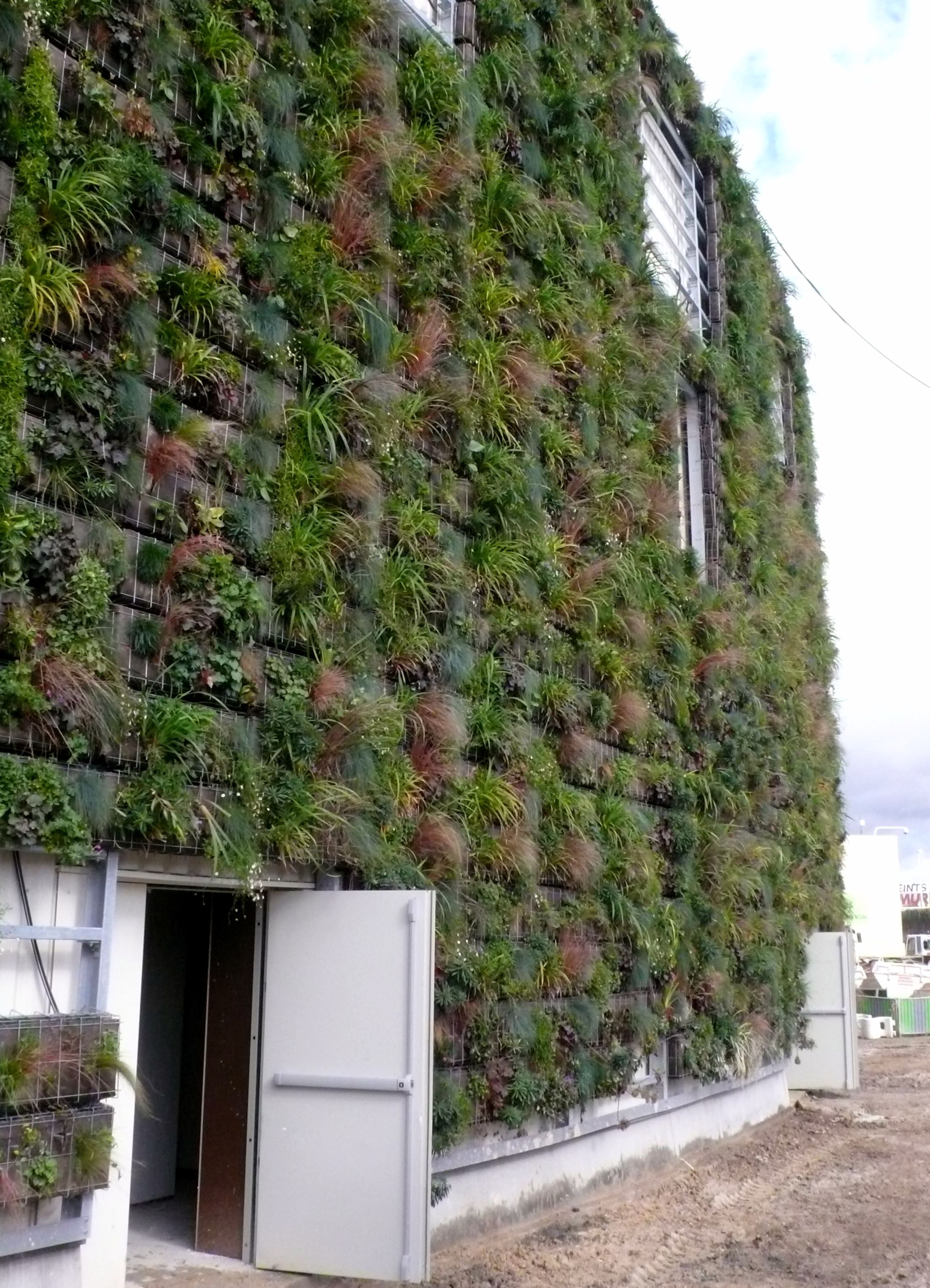 Green wall, under construction, at the Shopping mall "Les Sentiers" in Claye-Souilly.